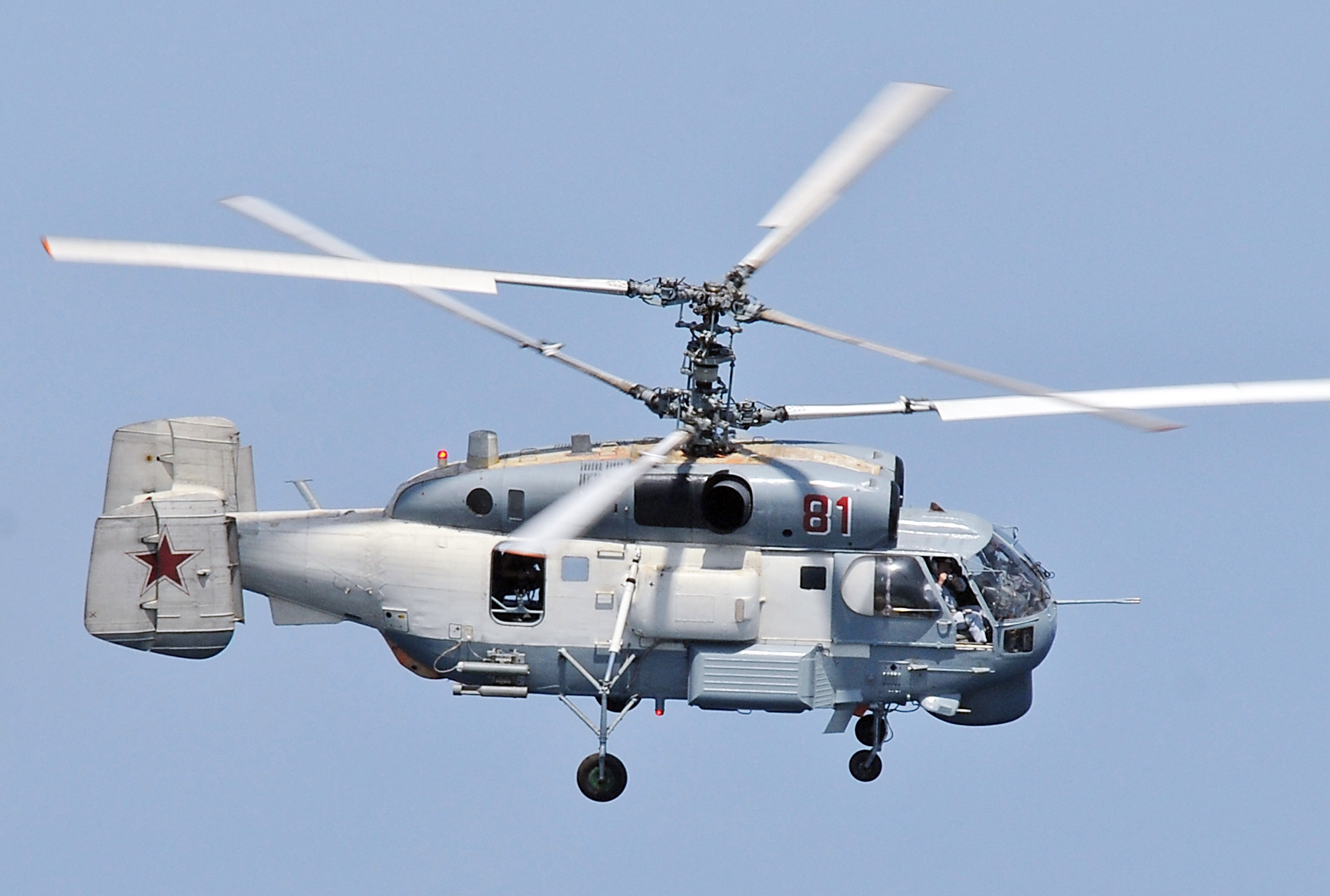 090209-N-1082Z-018 GULF OF ADEN (Feb. 9, 2009) A Russian Helix KA-27 helicopterassigned to the Russian destroyer Admiral Vinogradov (DDG 572) flies near the guided-missile cruiser USS Vella Gulf (CG 72) while conducting operations in the Gulf of Aden. Vella Gulf is the flagship for Combined Task Force 151, a multi-national task force conducting counterpiracy operations to detect and deter piracy in and around the Gulf of Aden, Arabian Gulf, Indian Ocean and Red Sea. (U.S. Navy photo by Mass Communications Specialist 2nd Class Jason R. Zalasky/Released)